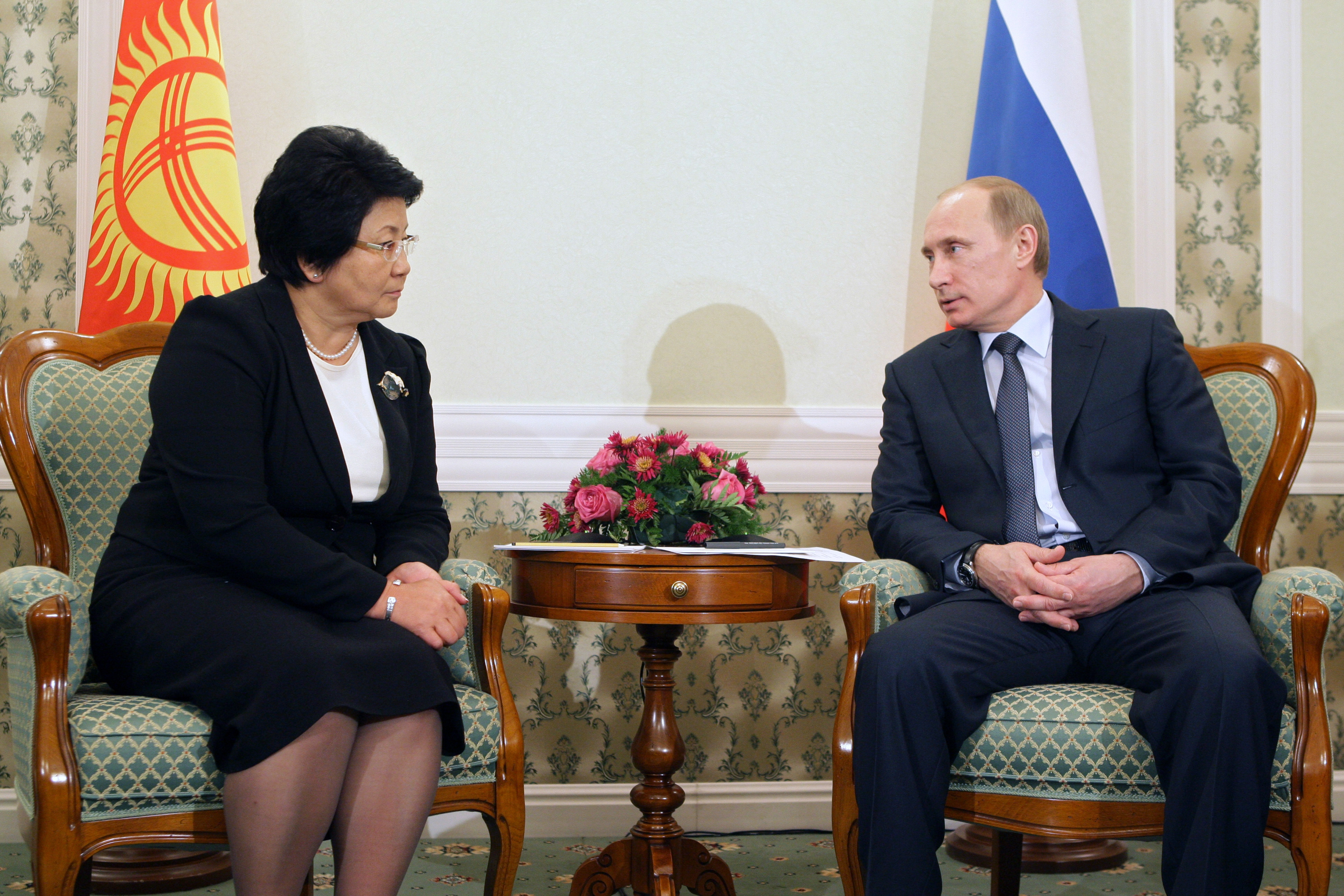 Prime Minister Vladimir Putin meets with President and Acting Prime Minister of Kyrgyzstan Roza Otunbayeva